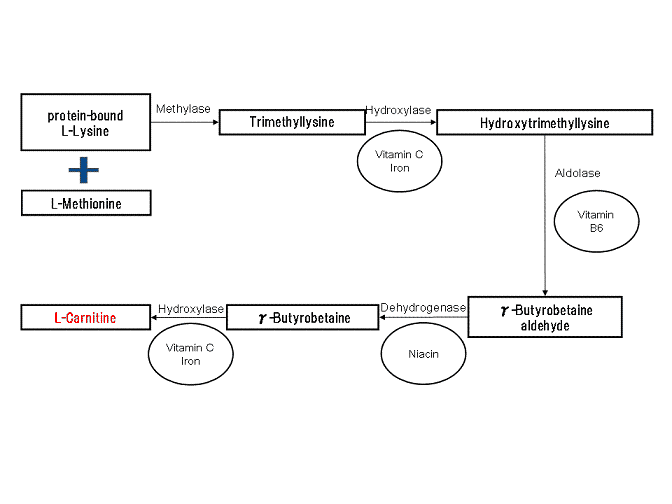 Endogenous biosynthesis of L-Carnitine from protein-bound amino-acid